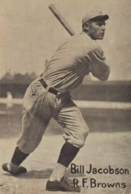 Baseball card of Baby Doll Jacobson from the 1919 Felix Mendelsohn set